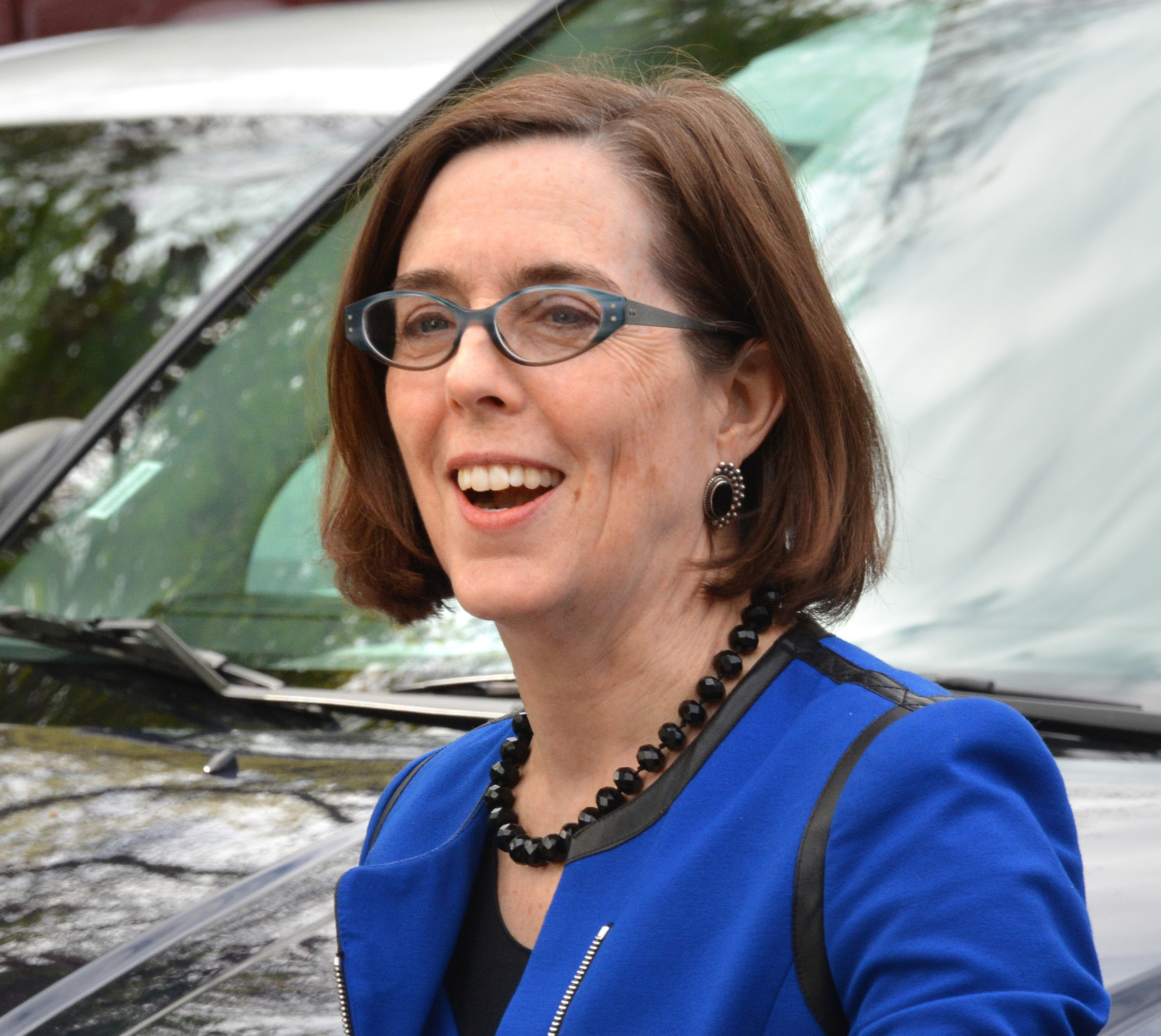 Oregon Governor Kate Brown in Medford for a site visit to the Medford I-5 Viaduct.